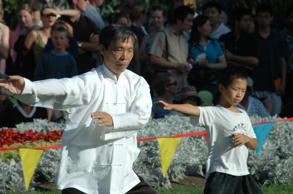 An elderly man and a child perform tai chi together - style unknown, maybe Chen.